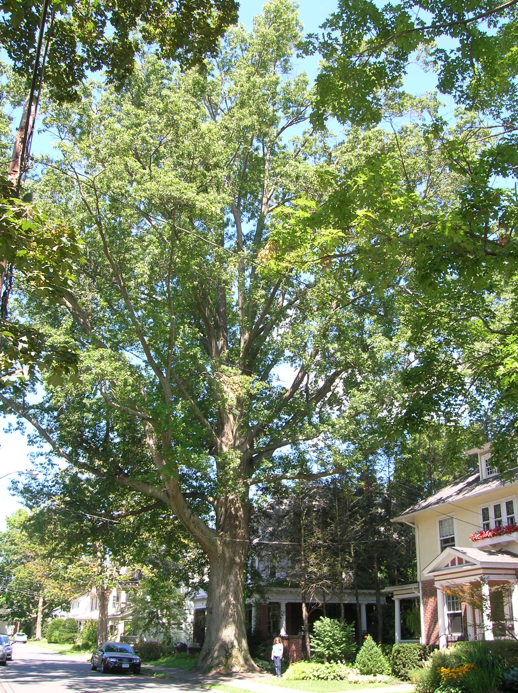 Photograph of largest known pin oak in New England - located in Northampton, MA. Photo was taken in August 2013.